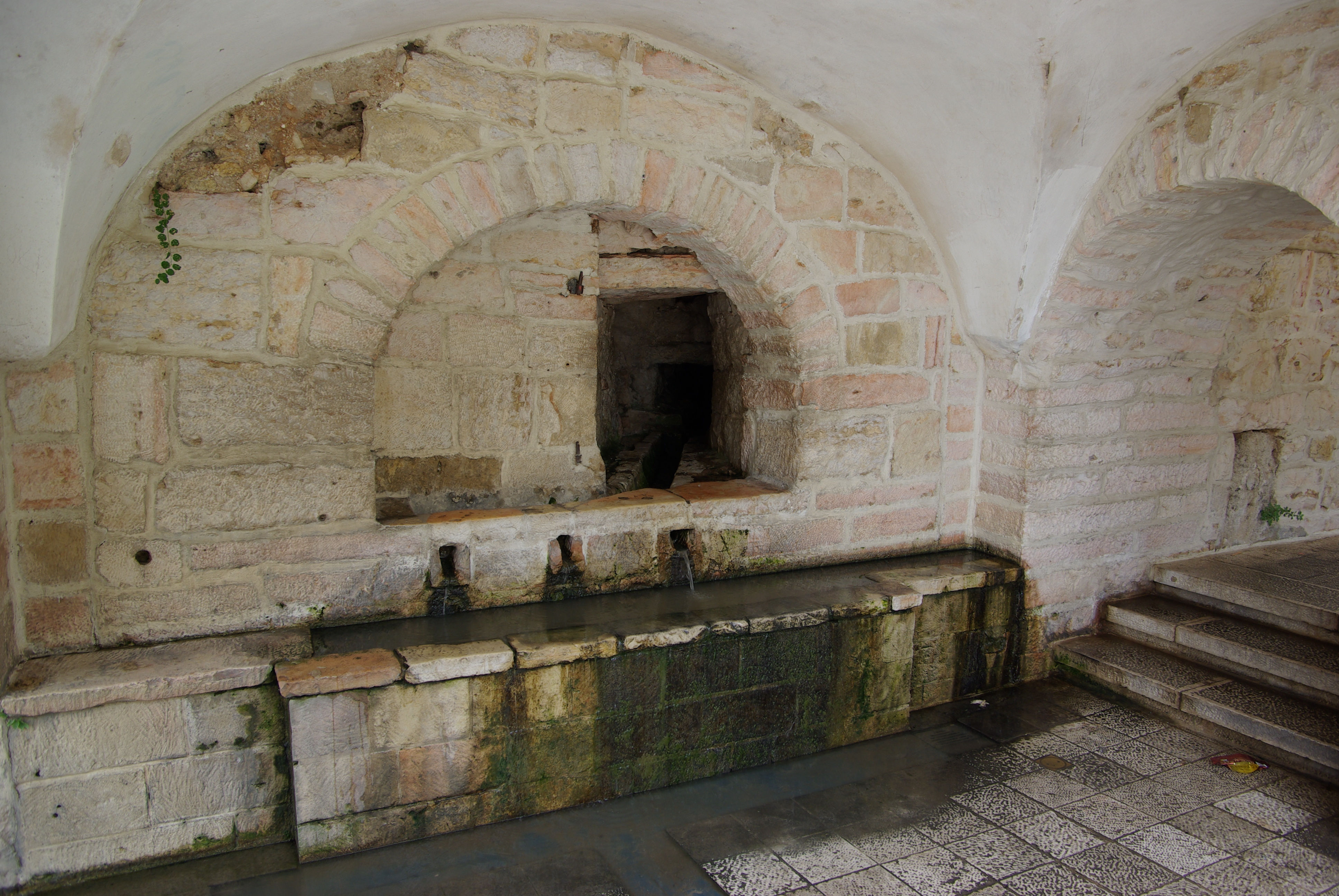 Israel, Ein Karem, Marys well